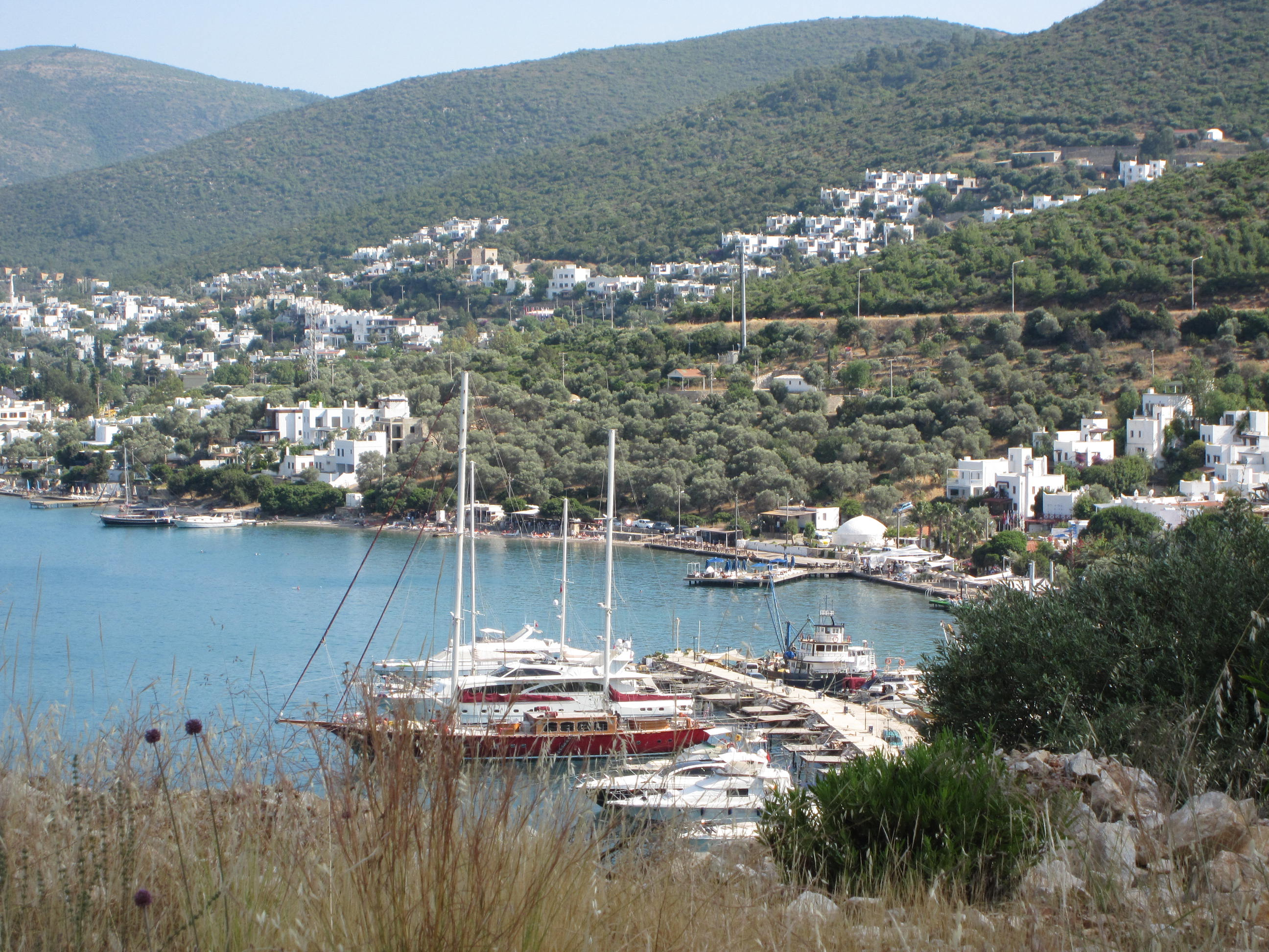 Harborside scene